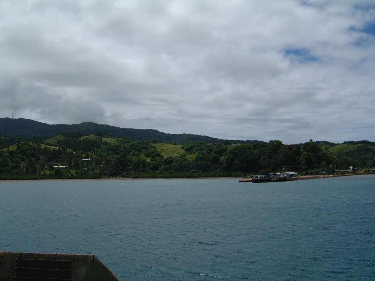 Port of Nabouwalu, Vanua Levu, Fiji